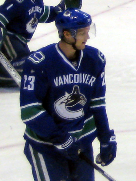 Alex Edler with the Vancouver Canucks in 2008.